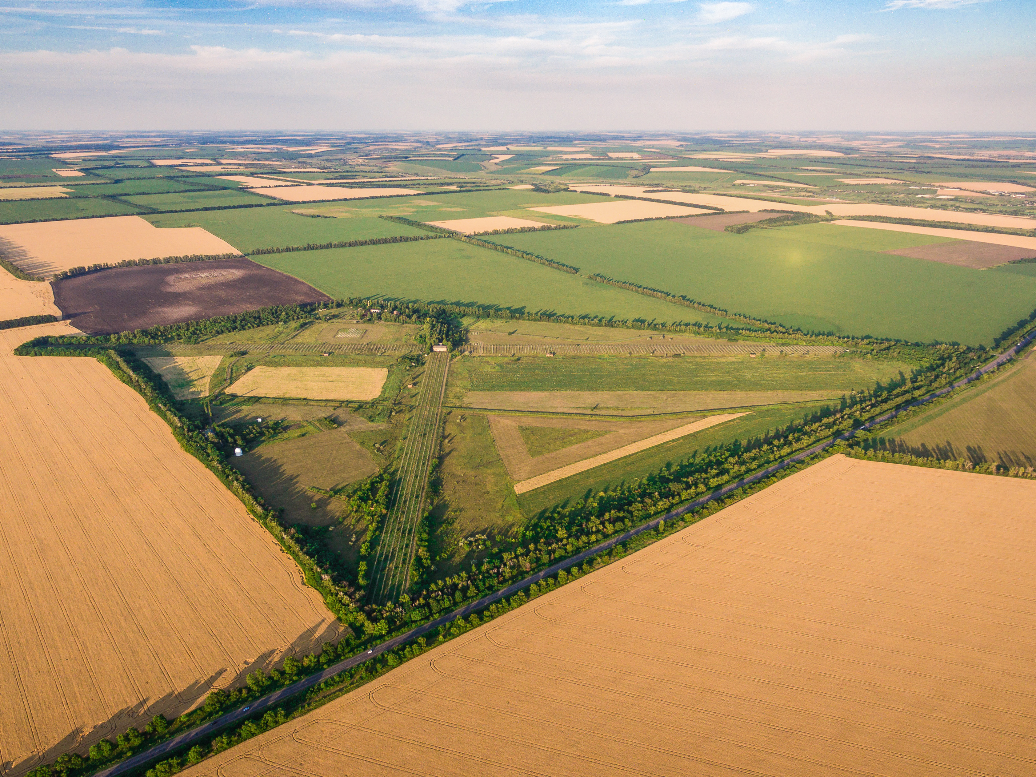 Aerial view of the Ukrainian UTR-2 radio telescope, the world's largest low-frequency radio telescope at decametre wavelengths. It consists of a T-shaped array of 2040 broadband cage dipole antenna elements, seen in center. Each dumbbell shaped element is 1.8 m in diameter and 8 m long, made of galvanized steel wire, mounted 3.5 m above the ground, with a balun to connect it to the transmission line The antenna receives a bandwidth 8 to 33 MHz. Photo from a height of 500 meters